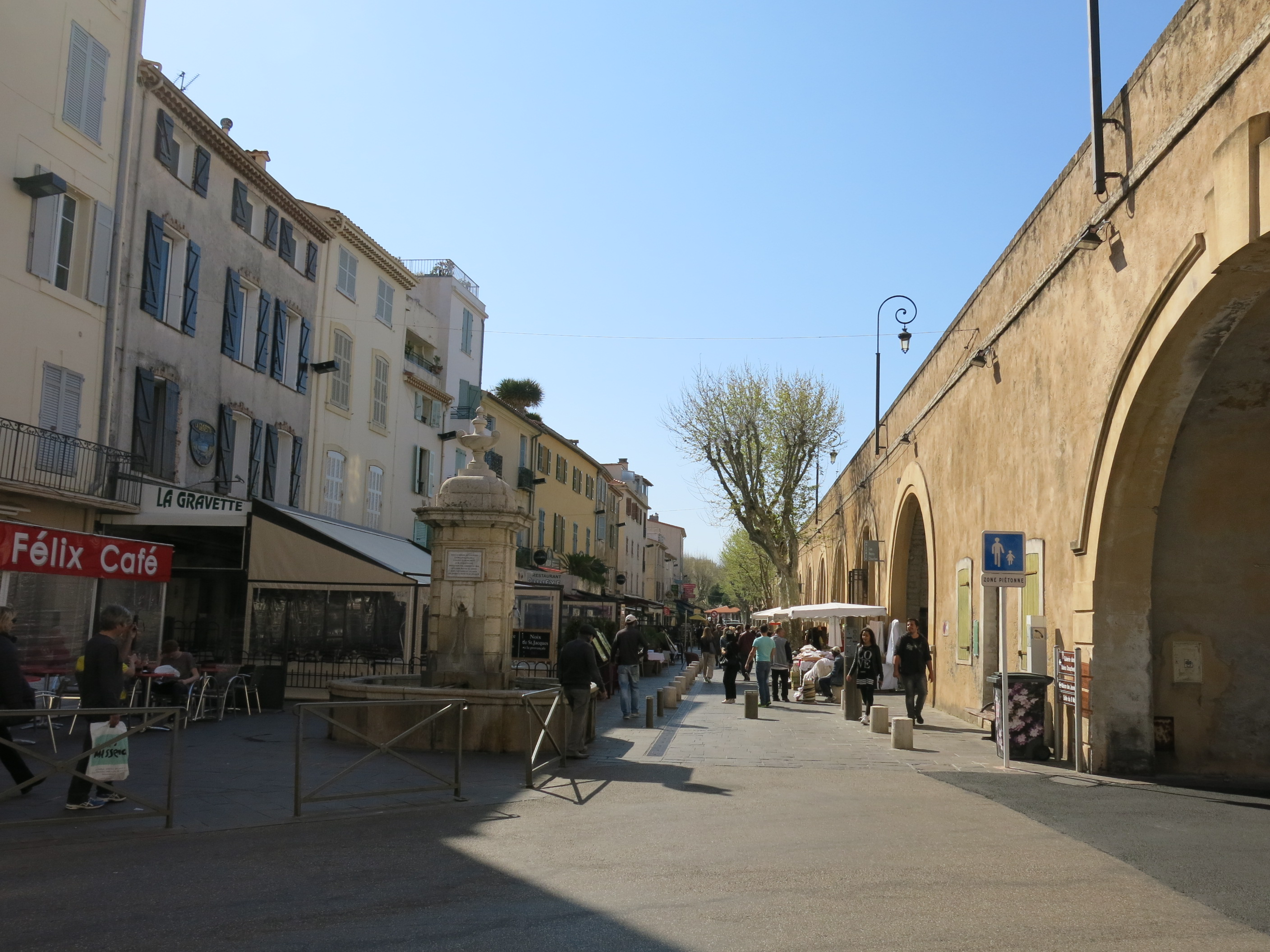 Boulevard d'Aiguillon : The foot of the city walls of Antibes (Alpes-Maritimes, France) on the interior side.